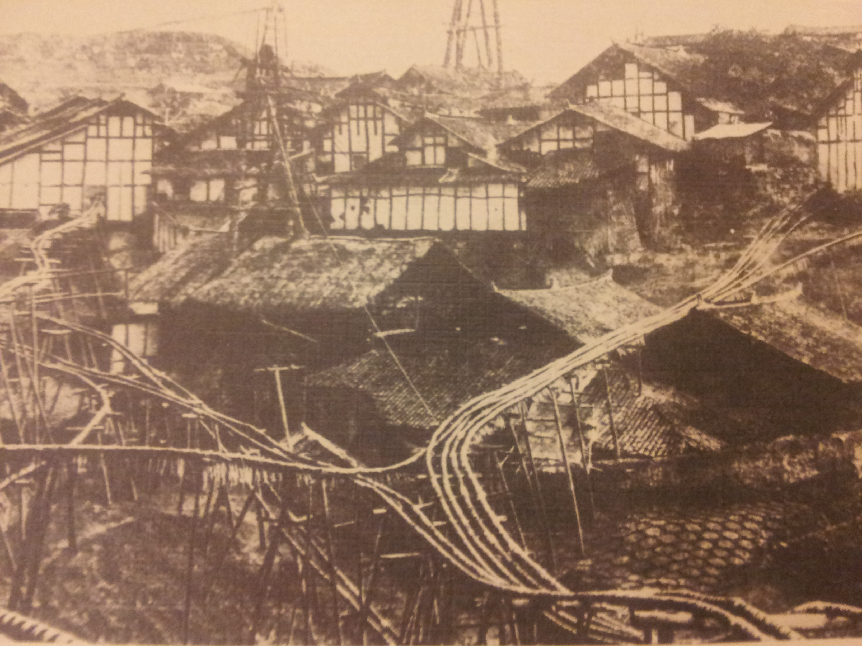 Tzuliuching